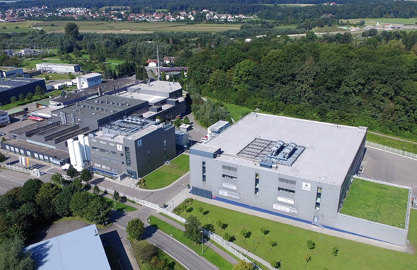 Vetter Pharma: View of the Ravensburg Vetter Sued facility including the laboratory and packaging buildings